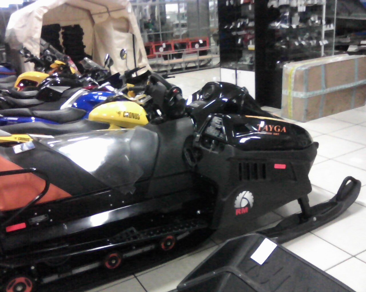 Snowmobiles in Russia